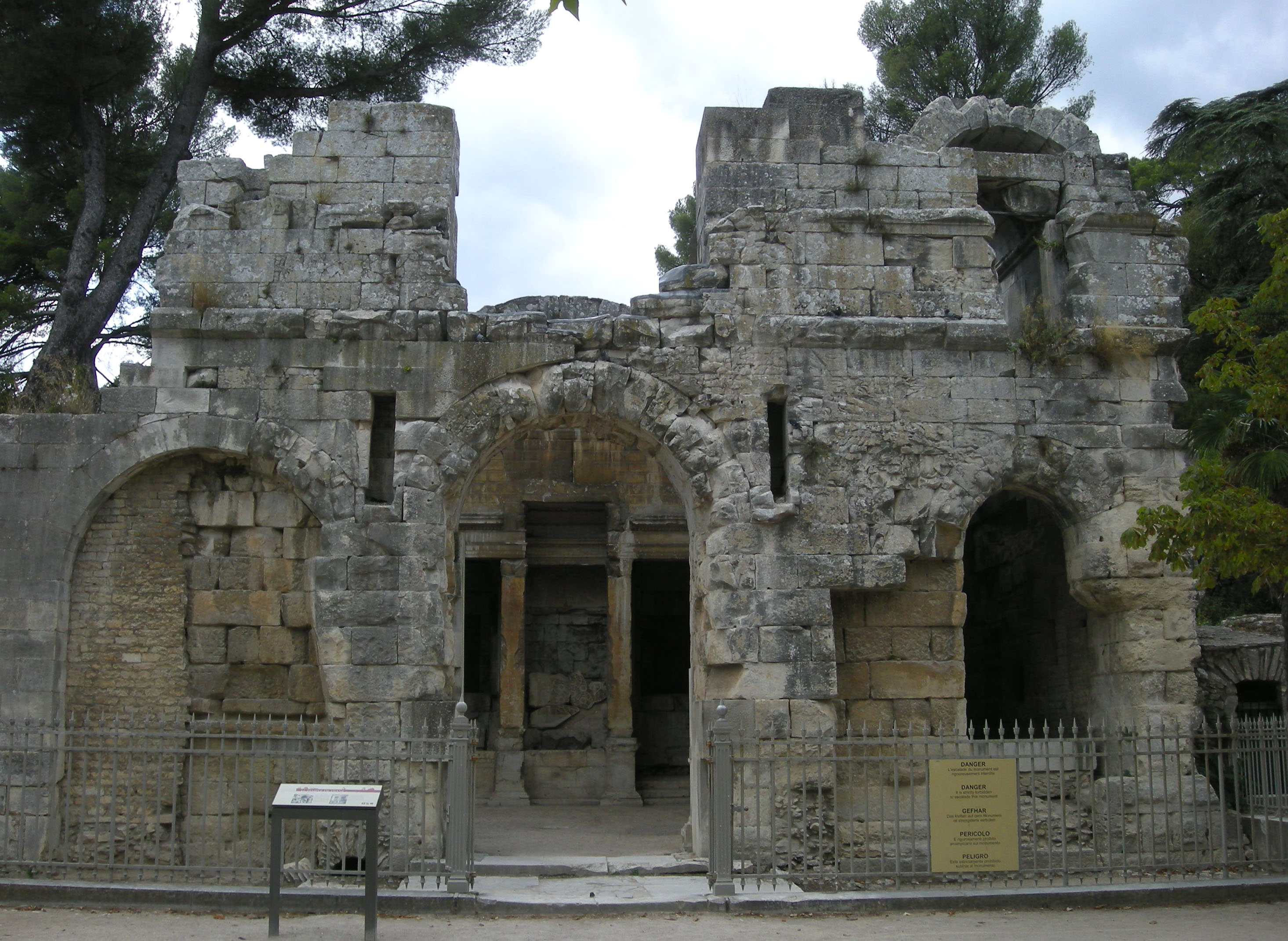 Temple of Diana in Nîmes (Gard)